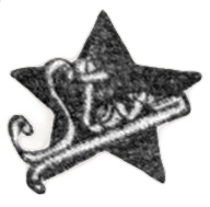 Logo for the Dutch East Indies production house Star Film, taken from advertising material for their film Lintah Darat